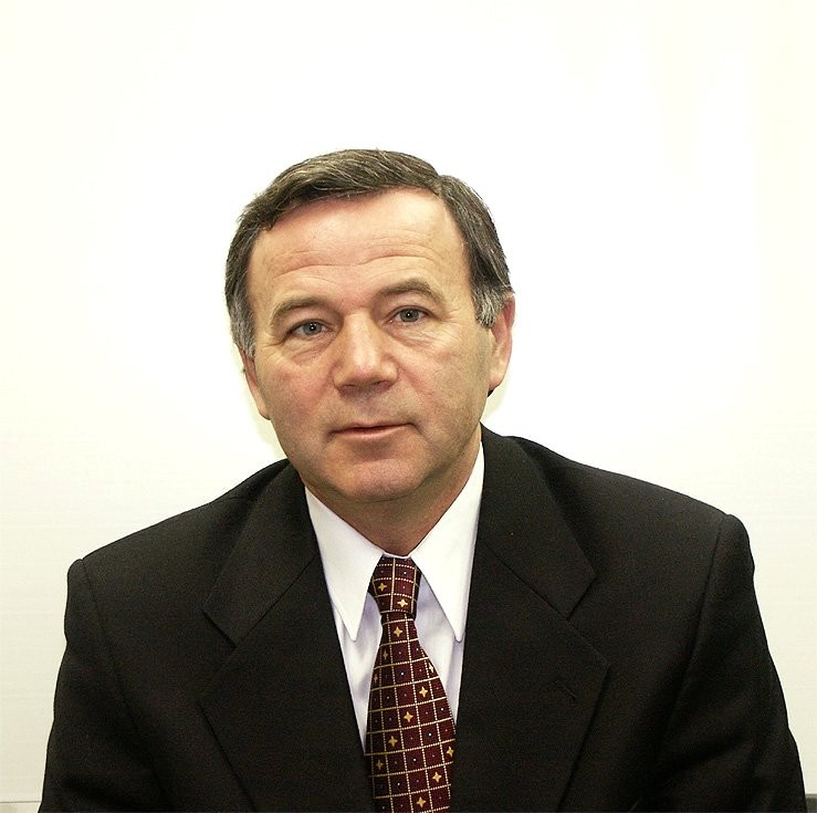 Aleksander Aleksandrovich Potapov, Russian physician, the member of RAMS